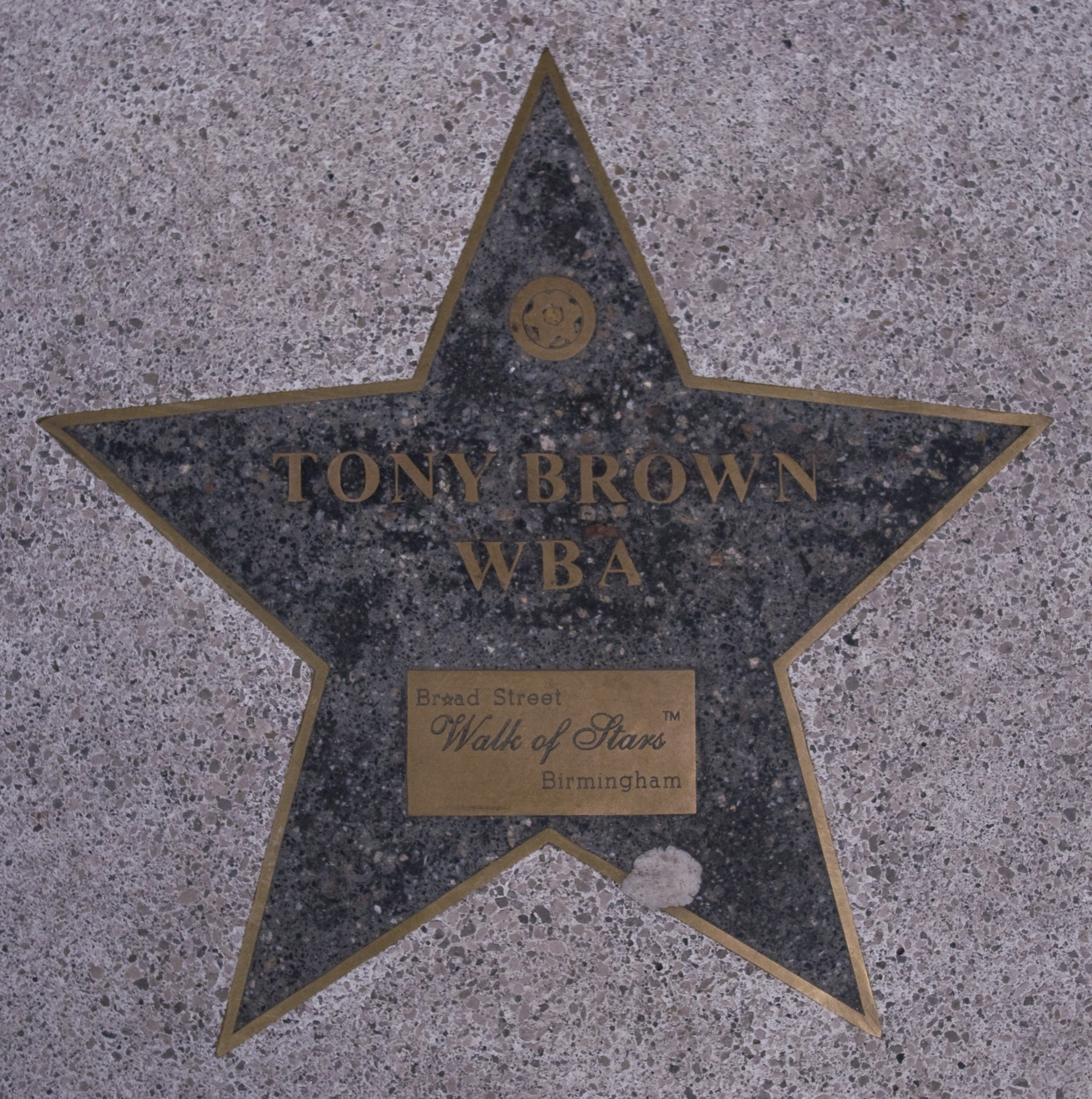 Star for footballer Tony Brown on the Birmingham Walk of Stars on Broad Street, Birmingham, England. Photographed by me 26 March 2010. Oosoom